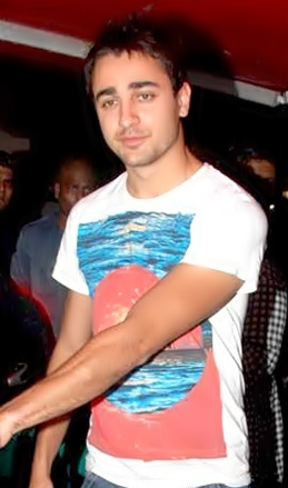 Imran Khan promoting I Hate Luv Storys at Fun Cinemas